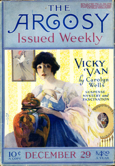 The Argosy, December 29, 1917